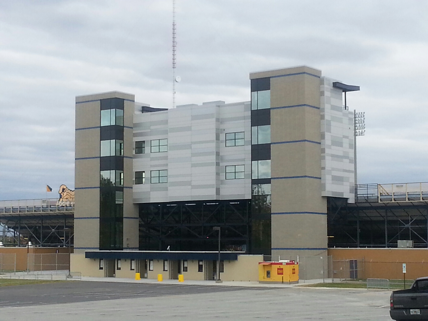 Aggie Stadium at North Carolina A&T State University with Pressbox in 2012